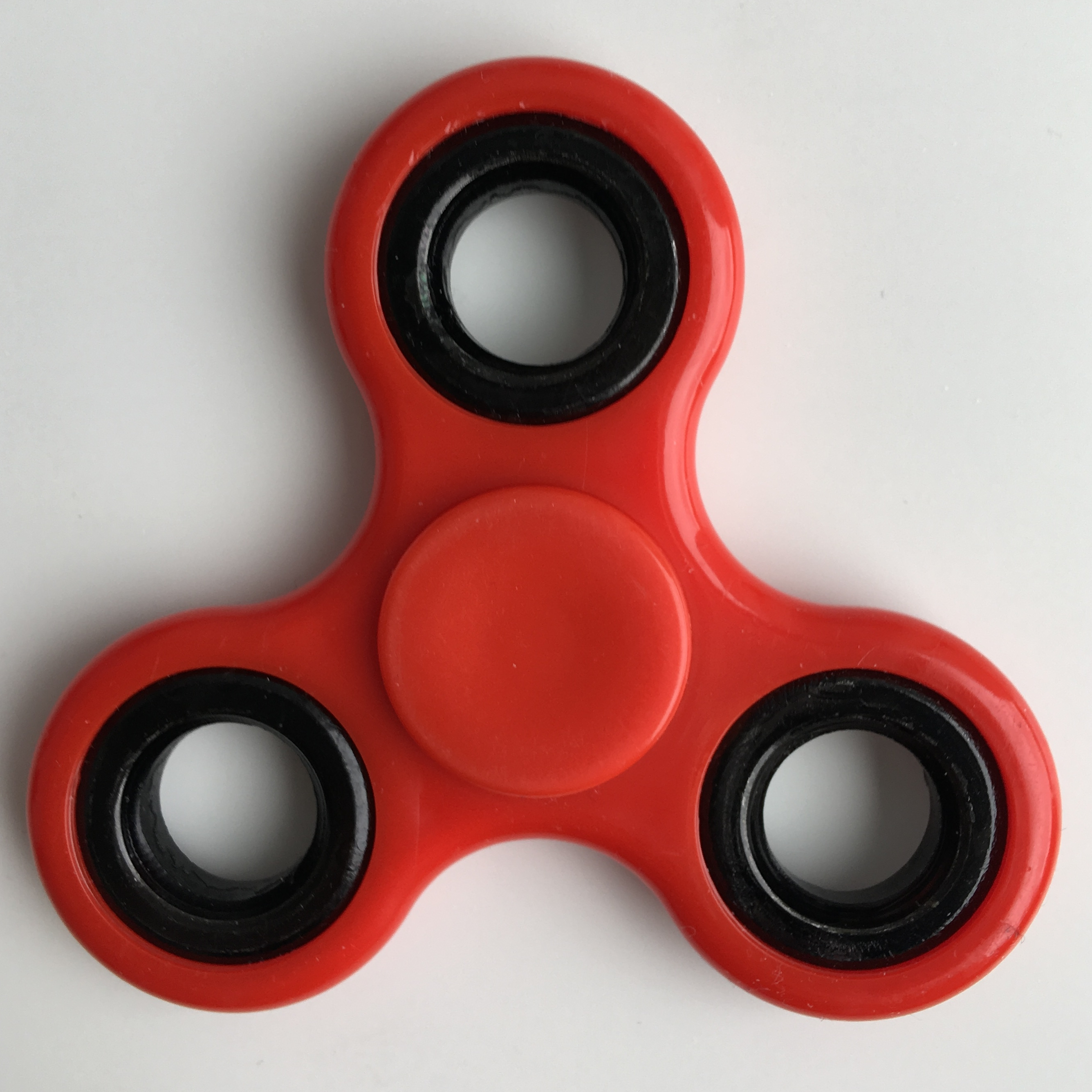 A photograph of a red fidget spinner.